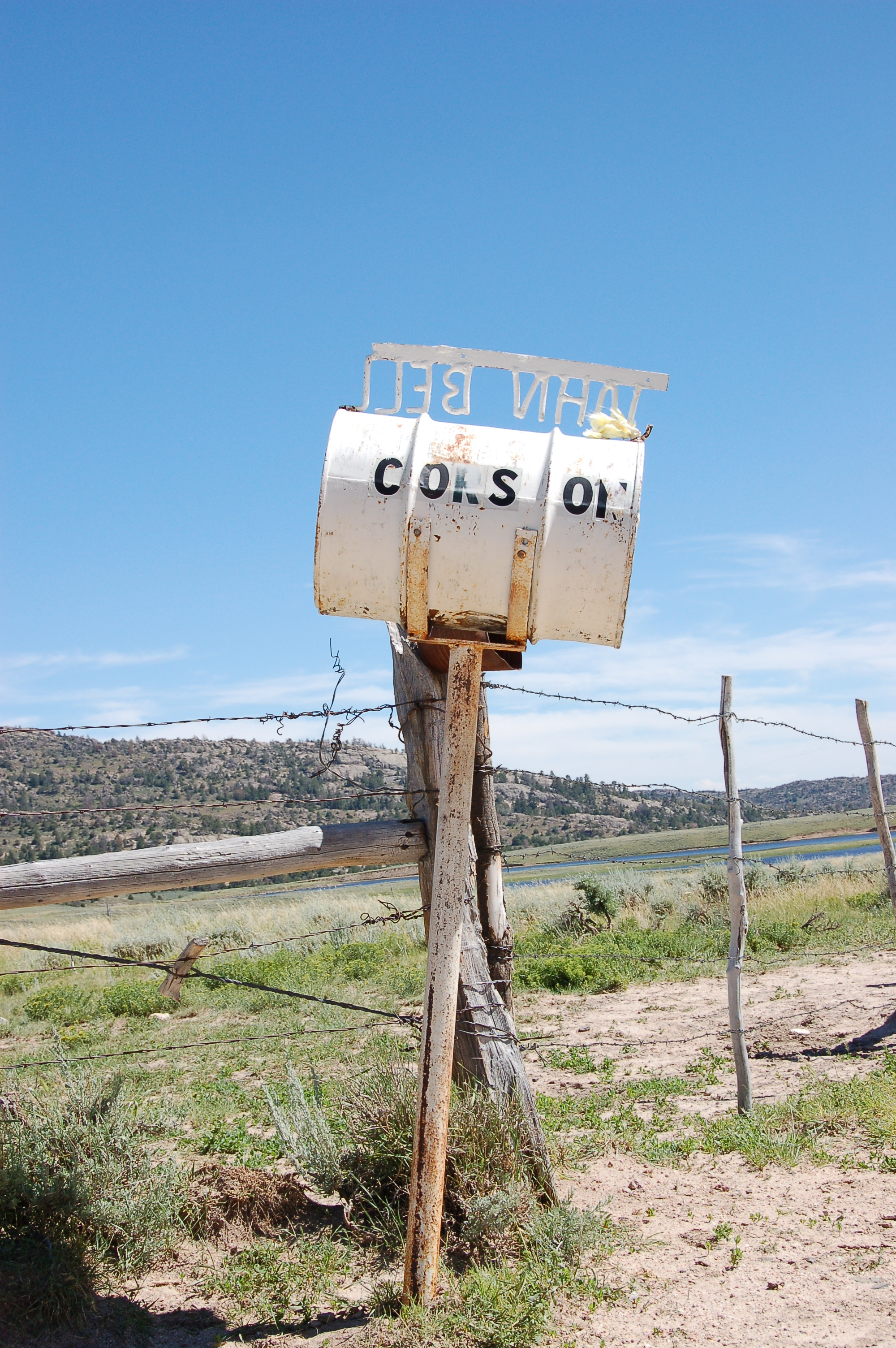 Private letterbox of a farm in Wyoming, USA